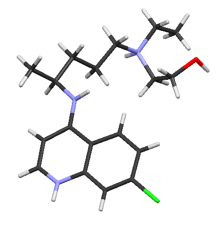 Chloroqiune 3D structure, chloroquine is a well known hemozoin biocrystallization inhibitor and an antimalarial